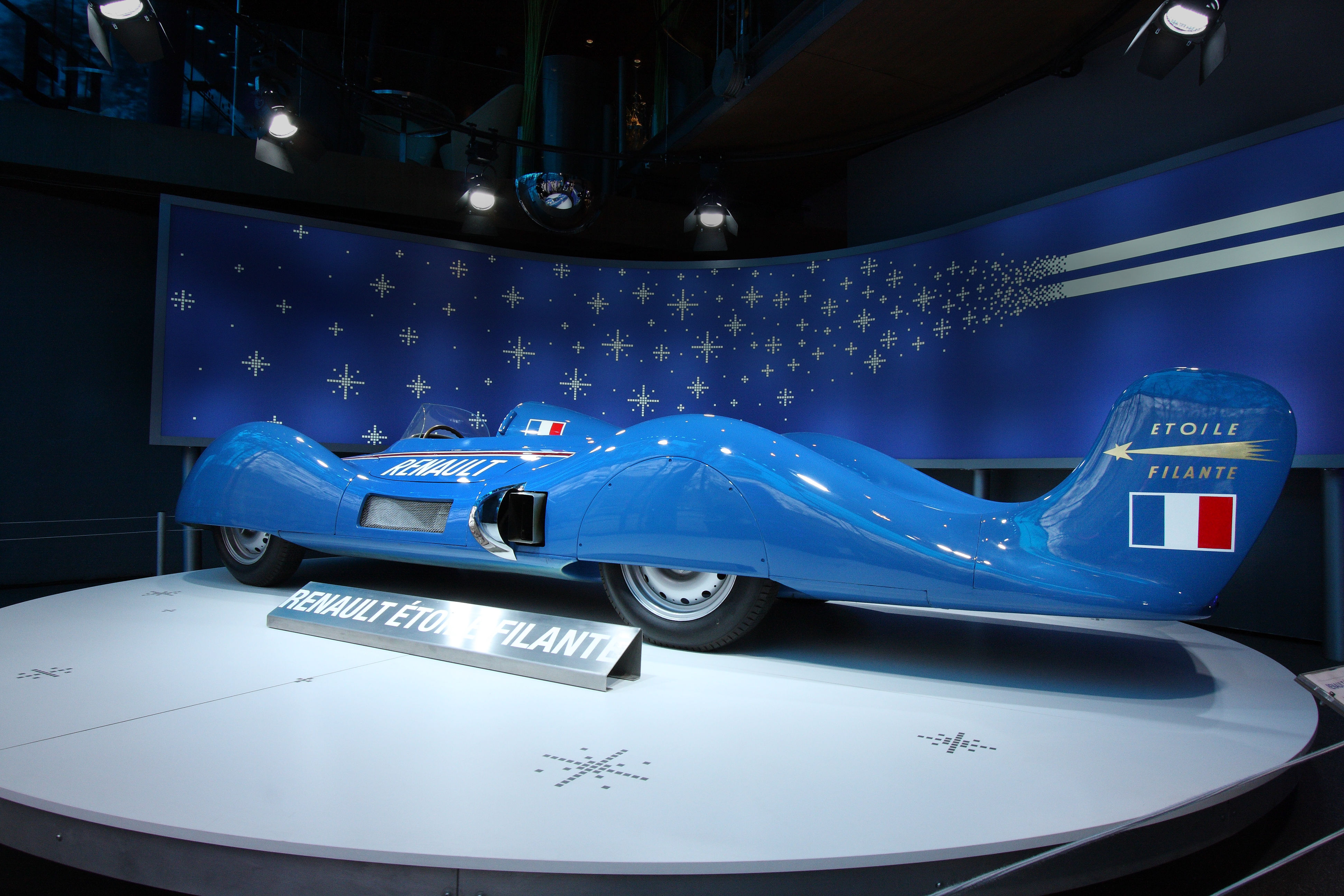 Renault "Étoile filante" : 308,85 km/h the 5th of september, 1956.